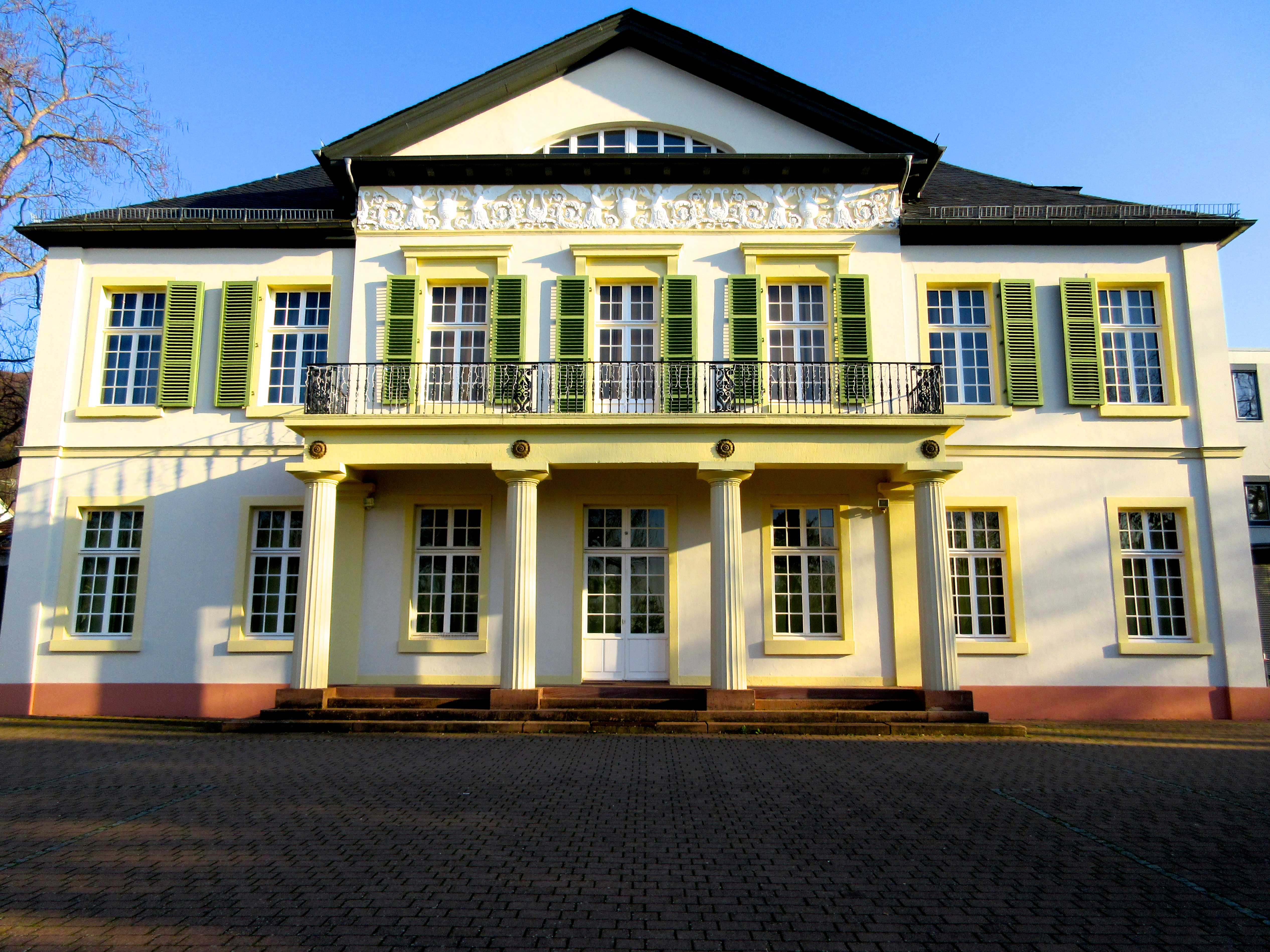 Rohrbacher Schlößchen Heidelberg belongs to Thorax Hospital Heidelberg